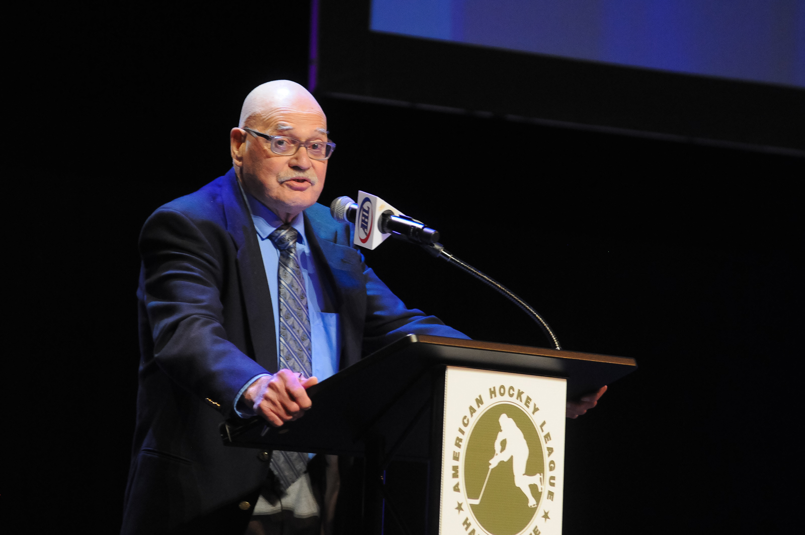 Lindsay A. Mogle/AHL